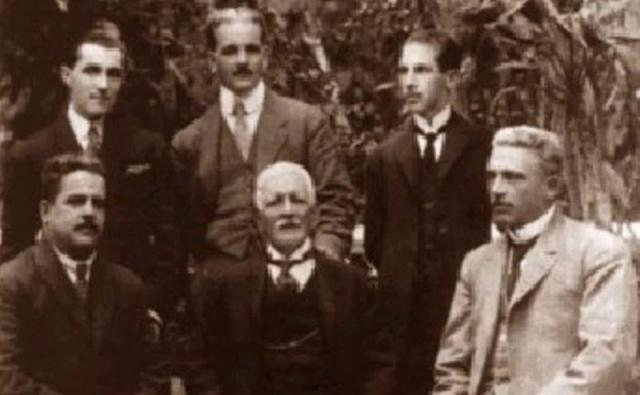 Fabriciano Felisberto de Brito and your sons.